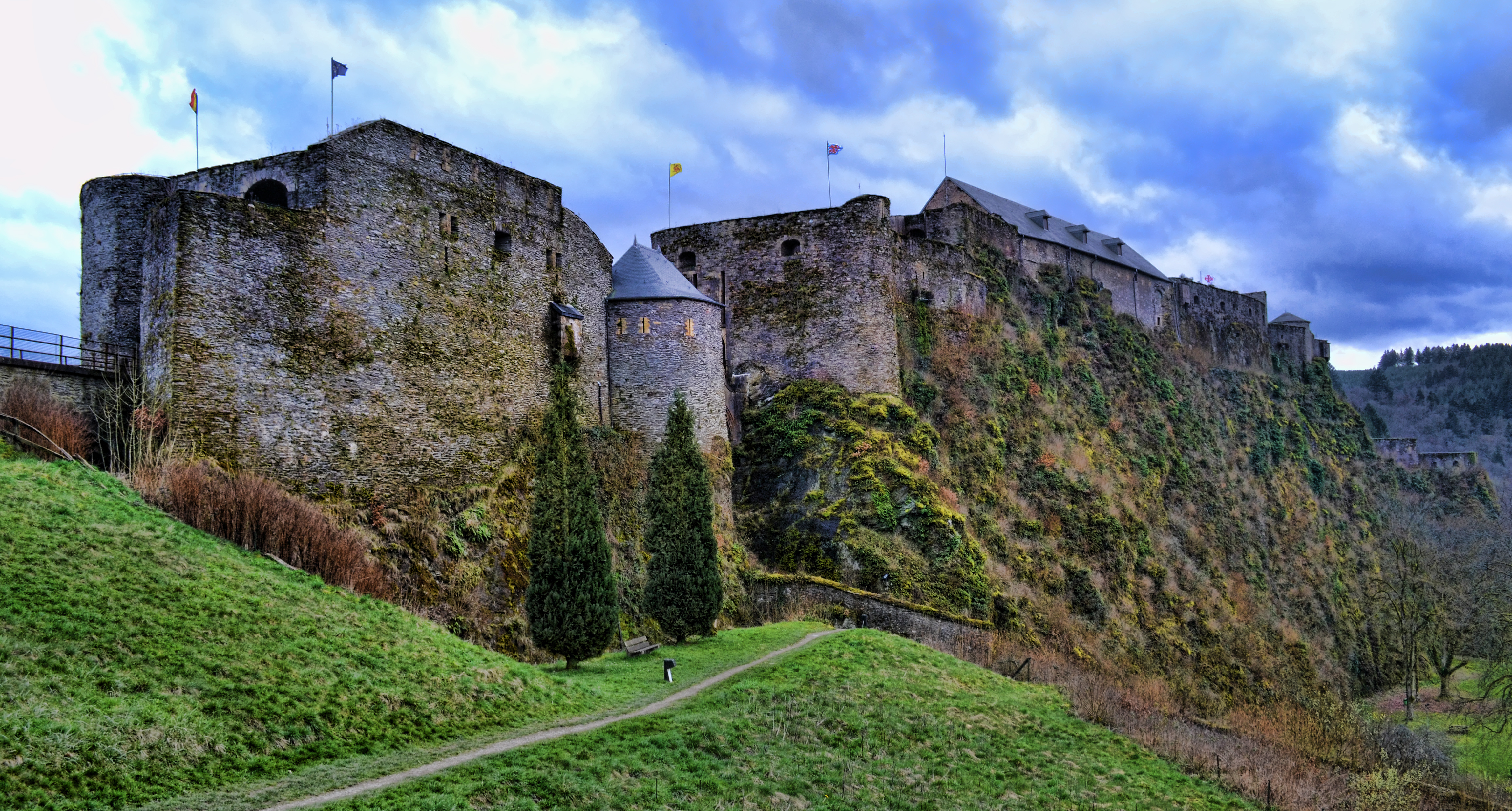 Bouillon Castle (French: Château de Bouillon) is a medieval castle in the town of Bouillon in the province of Luxembourg, Belgium. Although it was mentioned first in 988, there has been a castle on the same site for a much longer time. The castle is situated on a rocky spur of land within a sharp bend of the Semois River. In 1082, Bouillon Castle was inherited by Godfrey of Bouillon, who sold it to Otbert, Bishop of Liège in order to finance the First Crusade. The castle was later fitted for heavy artillery by Vauban, Louis XIV's military architect in the late 17th century.